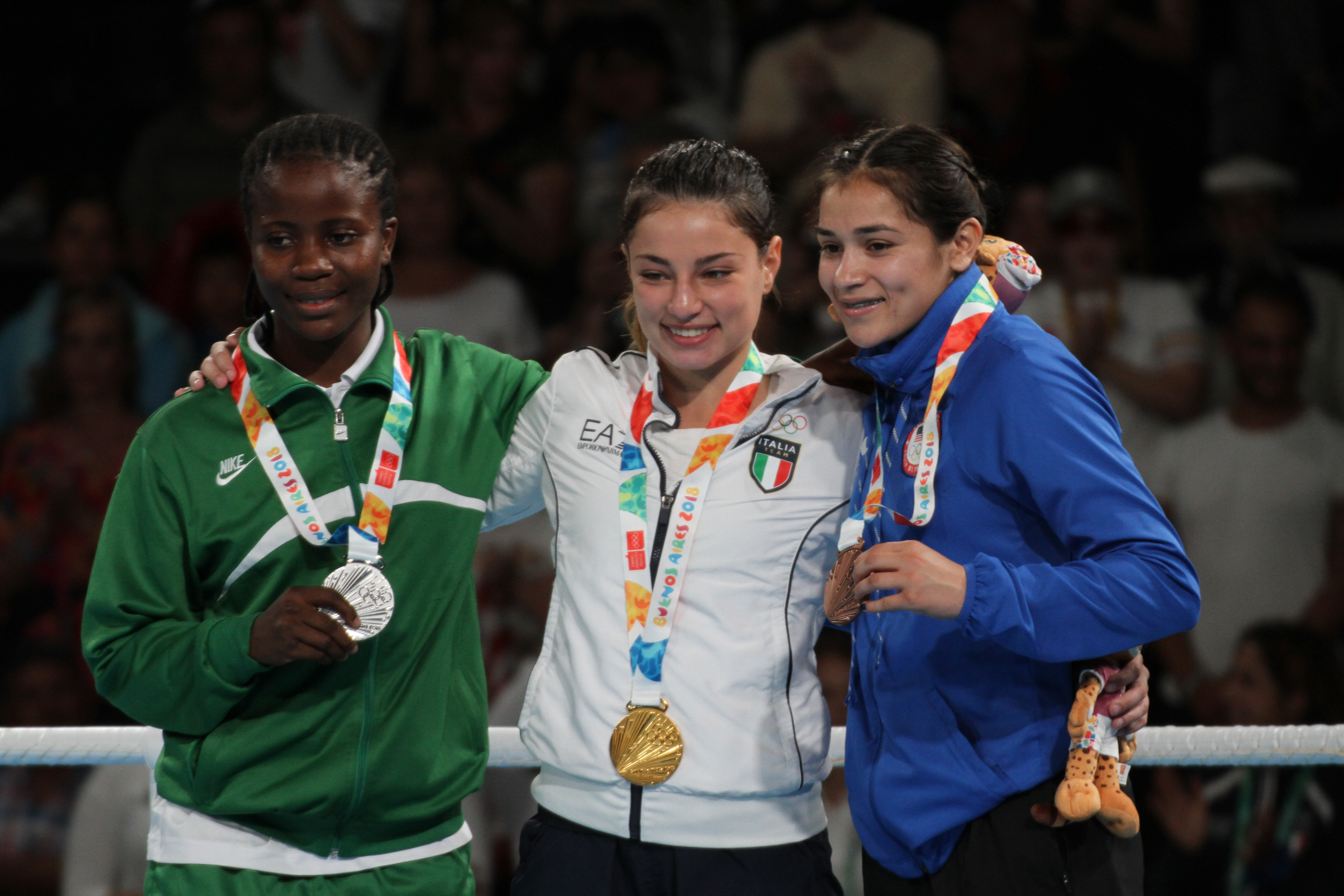 Victory ceremony of the Girls' flyweight Boxing tournament of the 2018 Summer Youth Olympics.